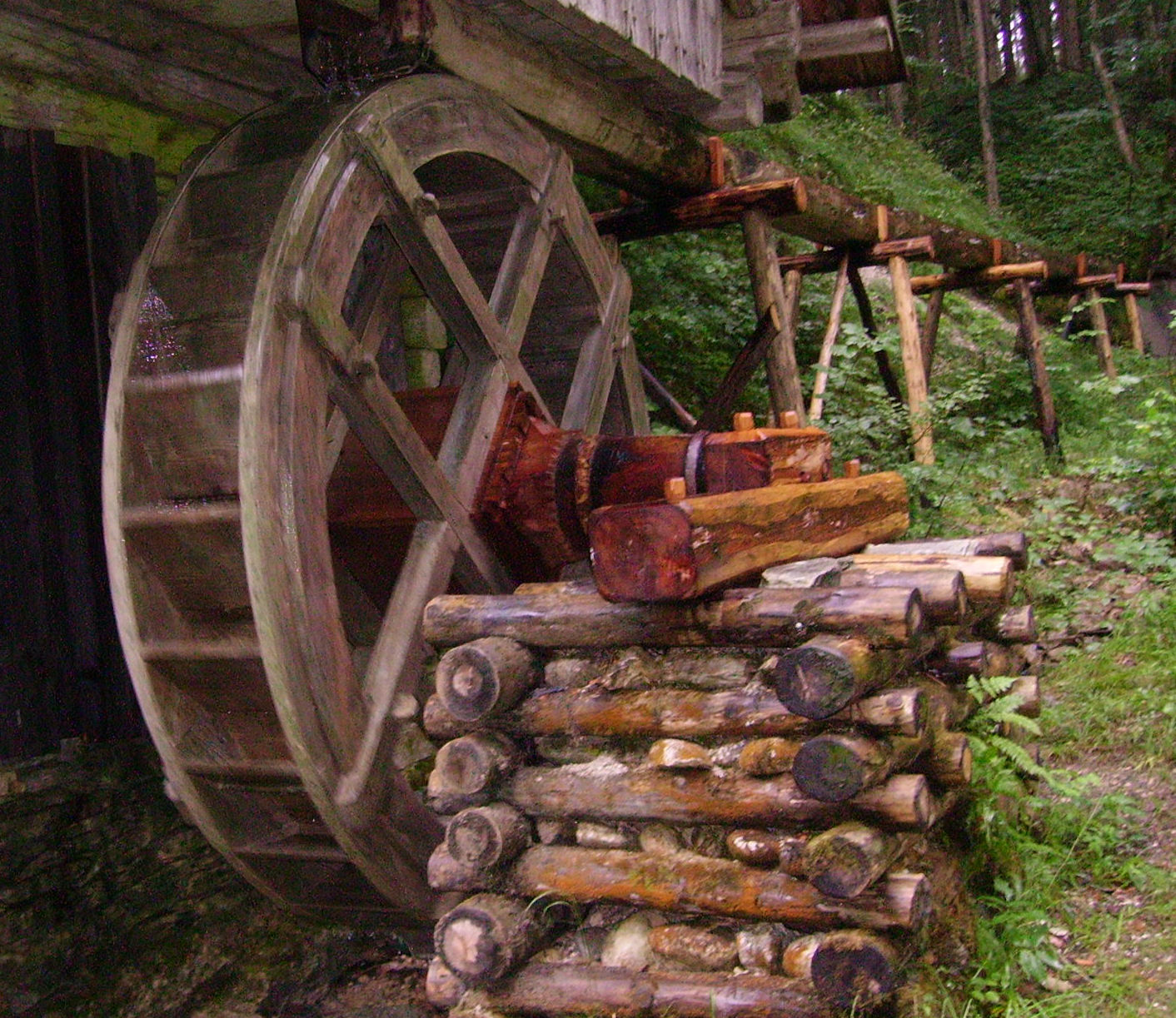 Freilichtmuseum Salzburg in Austria